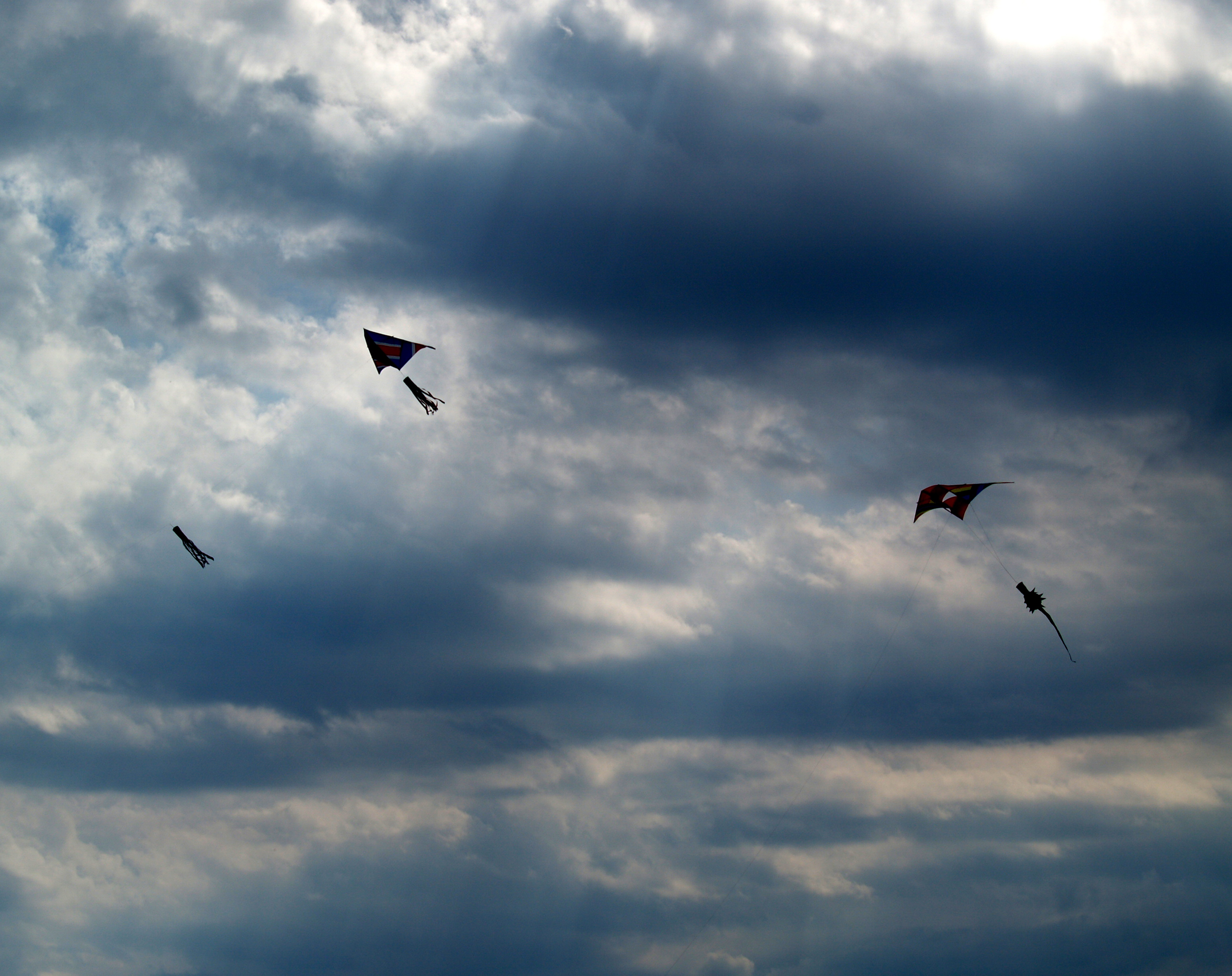 Flying kites